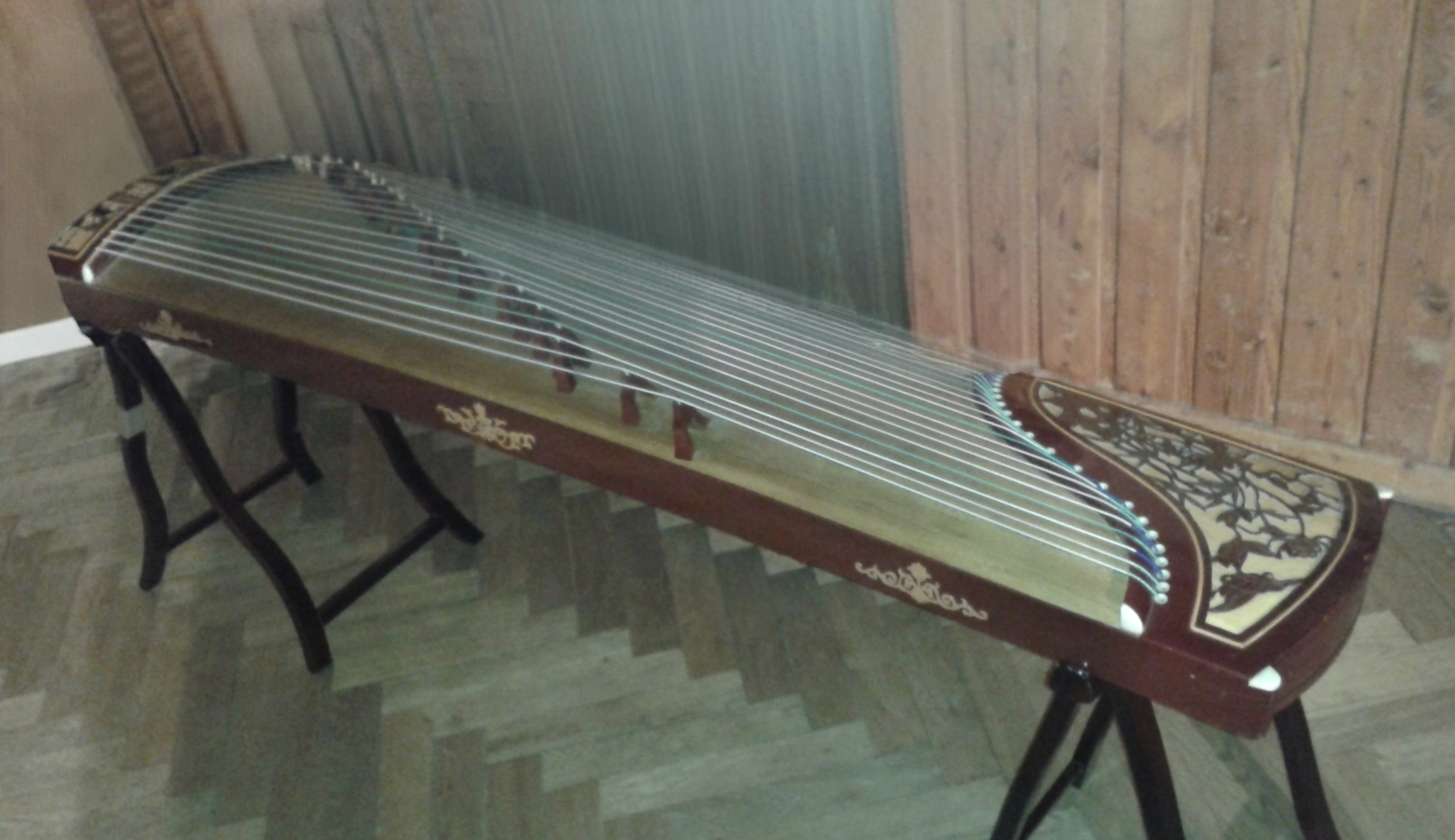 Zither Zheng (or "Guzheng") is a traditional Chinese string instrument with more than 2500 years of history. This is a modern version of Chinese zither, which has 21 strings and it is 160 cm long. Sound resonances are provided by a large cavity made of "Firmiana simplex" tree (a tree commonly known as the "Chinese parasol tree", "Chinese parasoltree", or "wutong"). This instrument belongs to the Czech sinologist Mgr. Jan Chmelarčík.